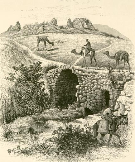 The khan at Lajjun (Roman "Legio"), near Megiddo